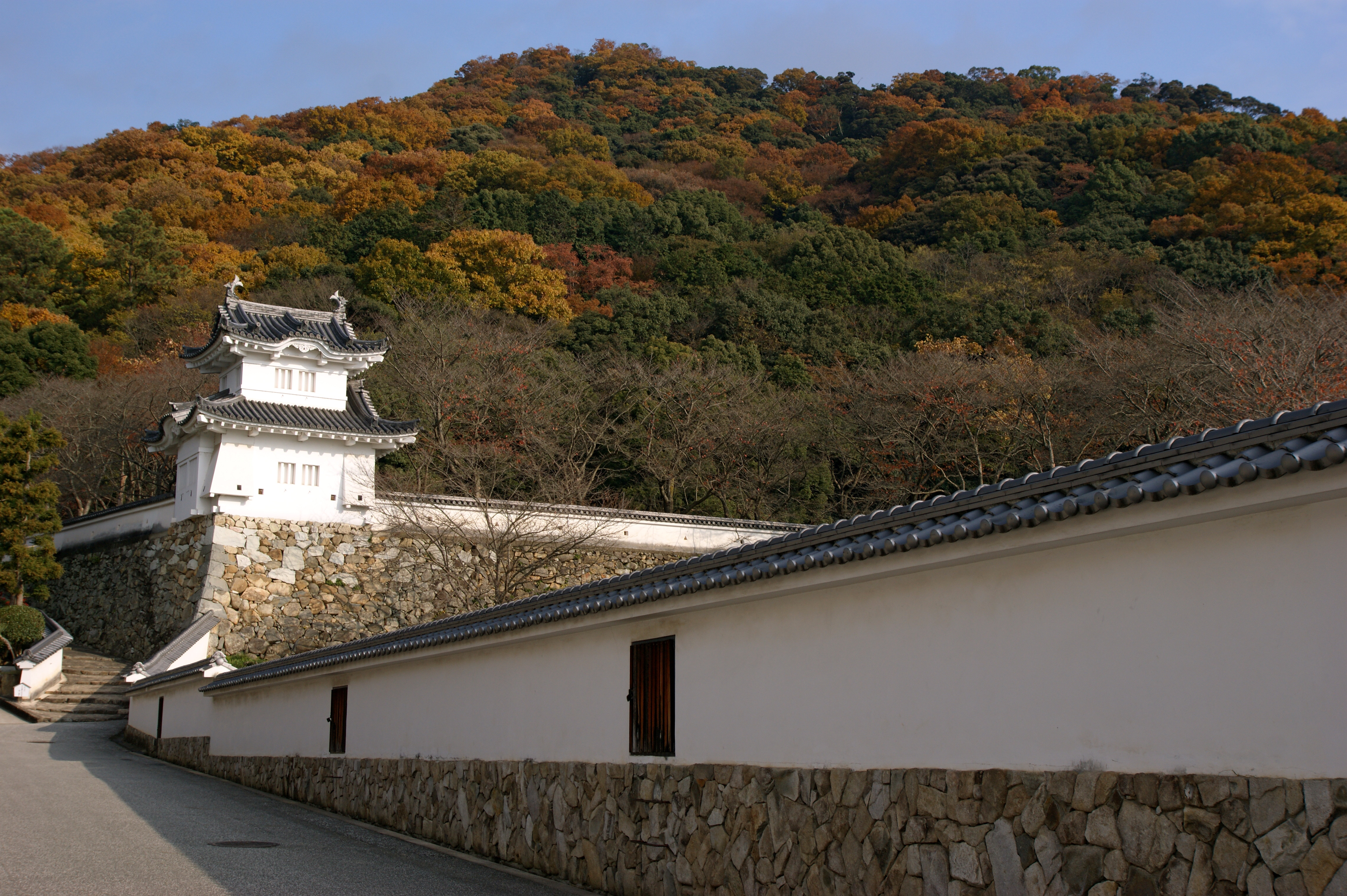 Tatsuno castle, Tatsuno, Hyogo prefecture, Japan